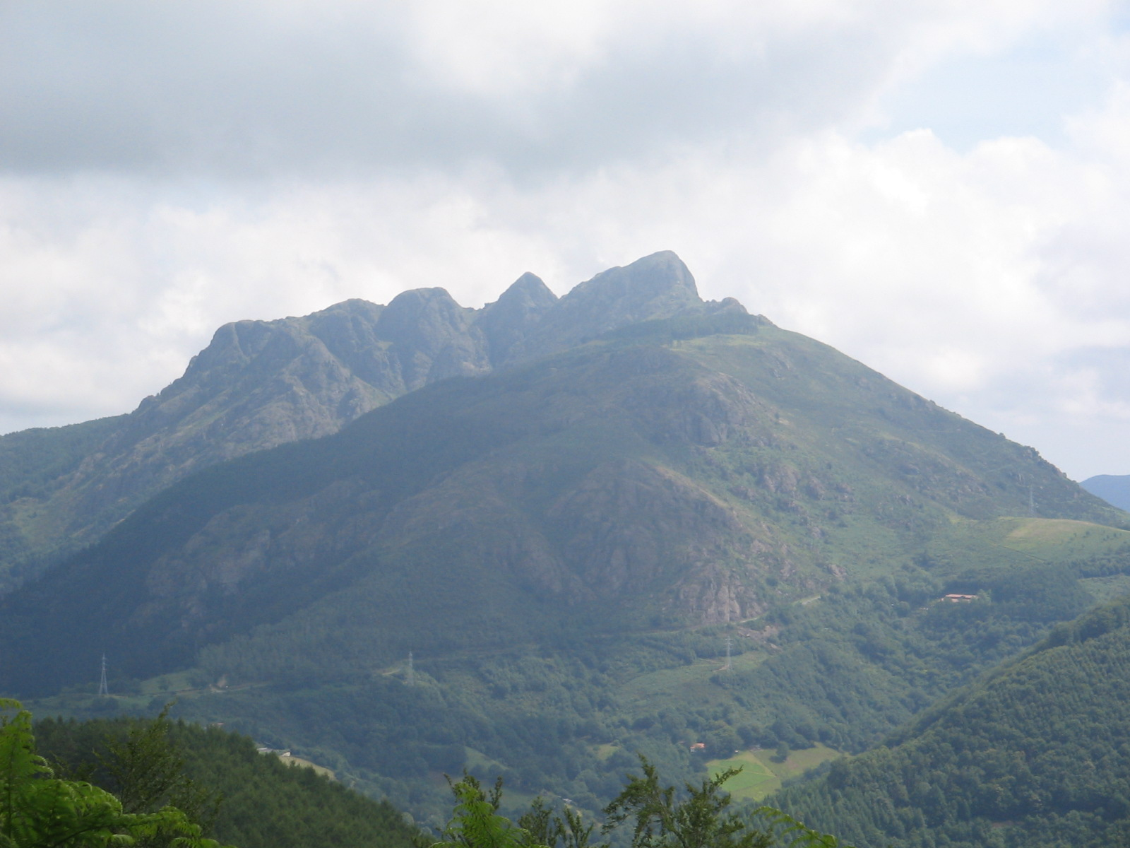 Aiako Harria mountain, Basque Country, one of the first mountains from the west on the Pyrenees